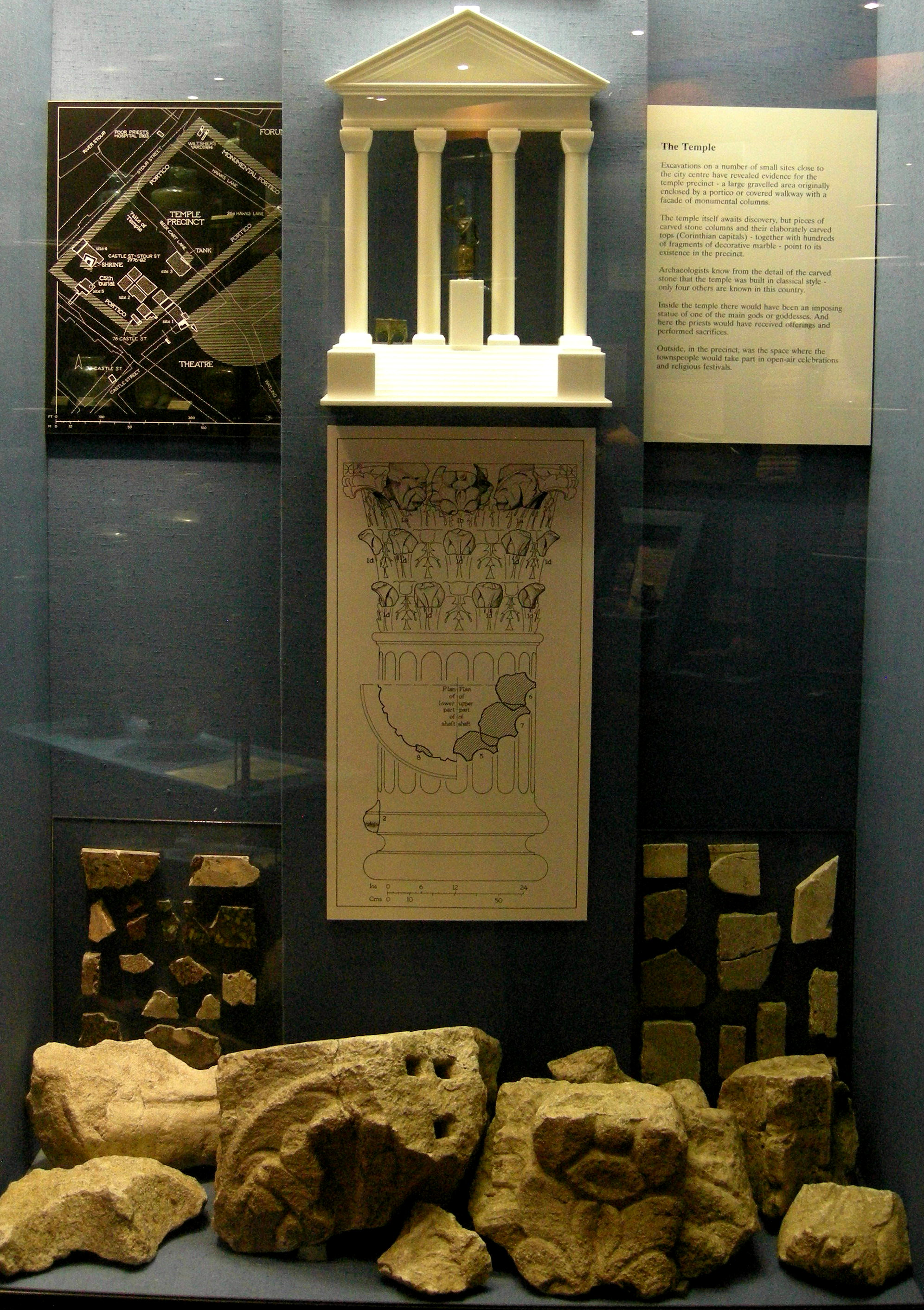 Roman Museum in Butchery Lane, Canterbury, Kent. Display showing pieces from the temple, the exact original site of which has not yet been found.